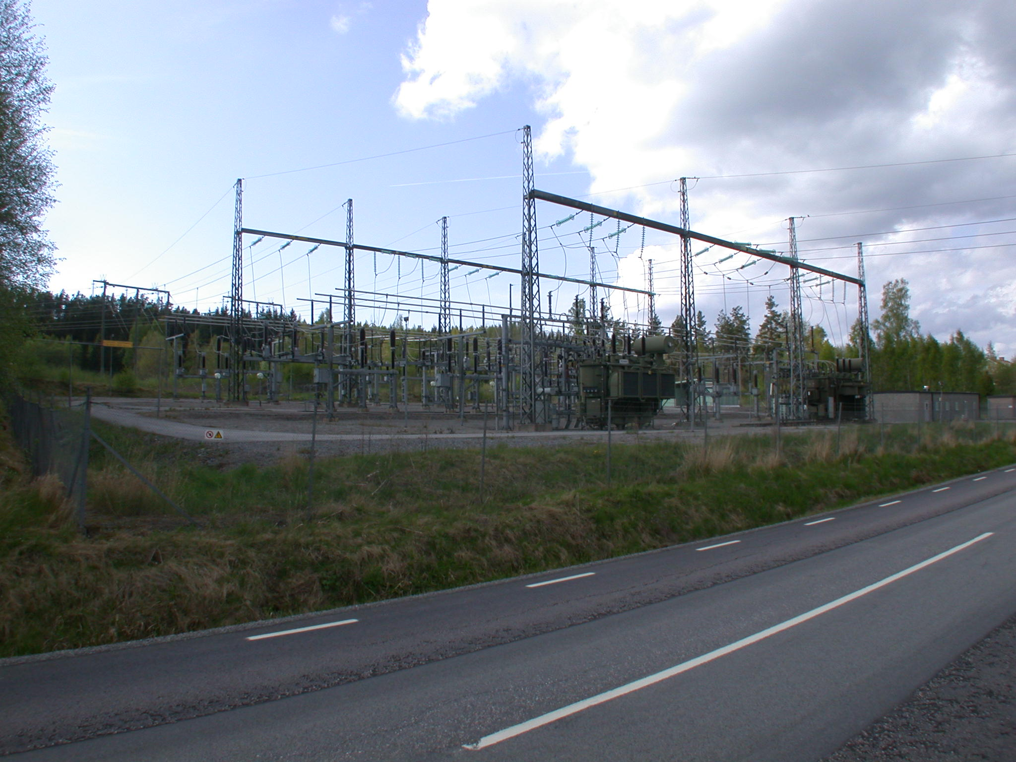 Swedish electrical substation.